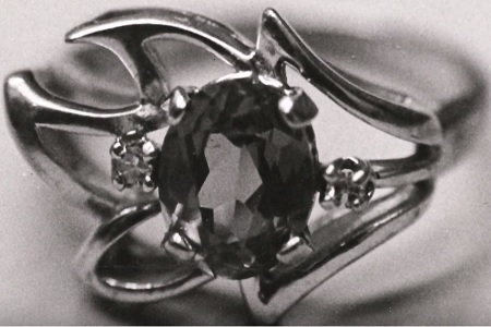 Ring found with the remains of an unidentified teenage girl killed in Florida in 1973